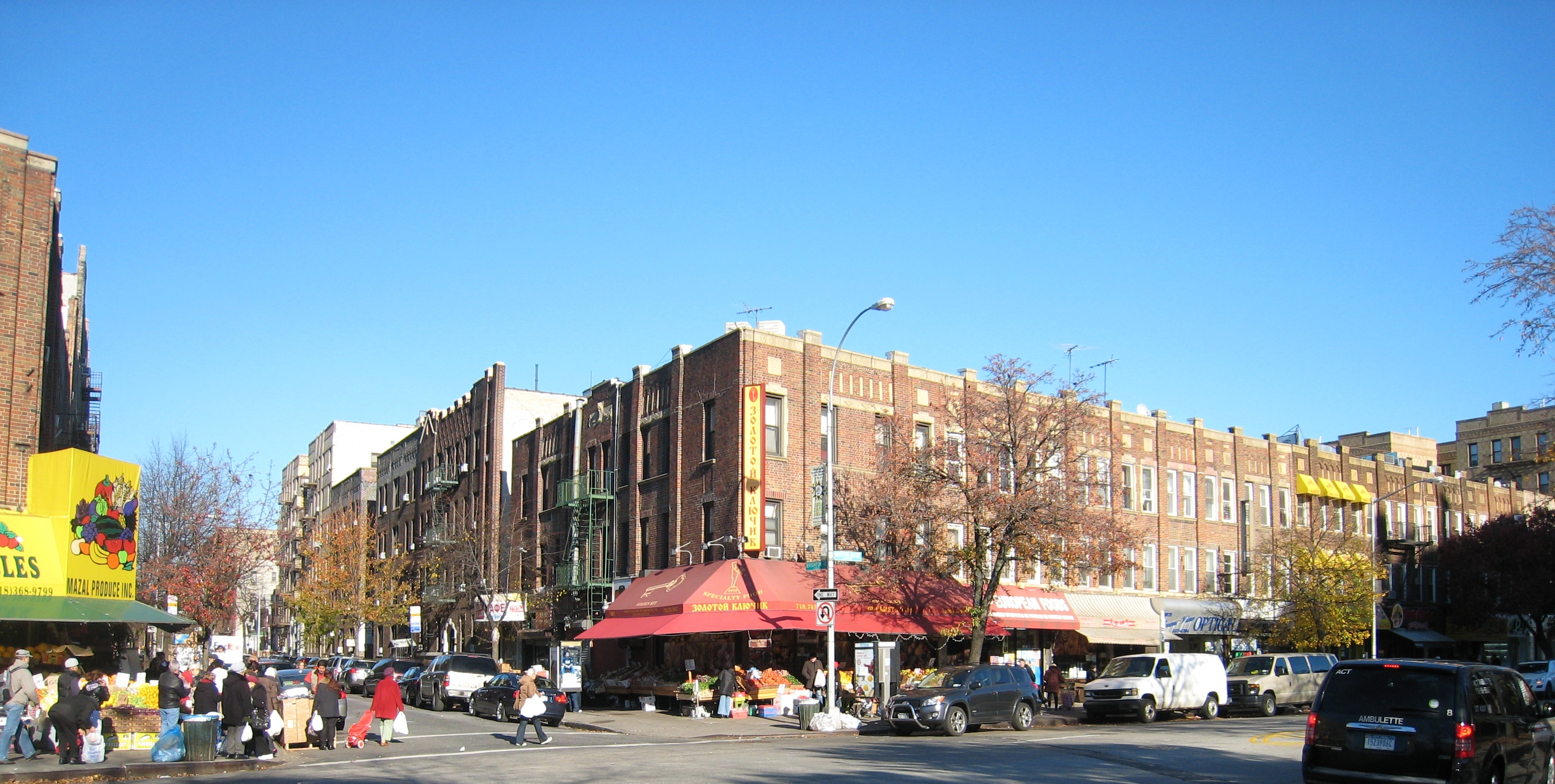 Брайтон-Бич